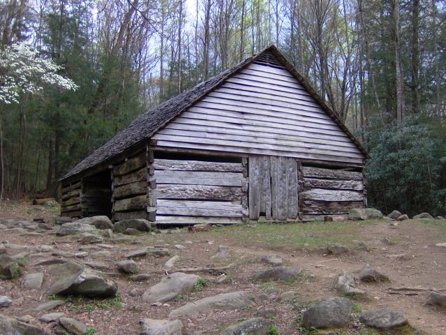 Barn at the Noah "Bud" Ogle place in the Great Smoky Mountains National Park near Gatlinburg, Tennessee, USA.